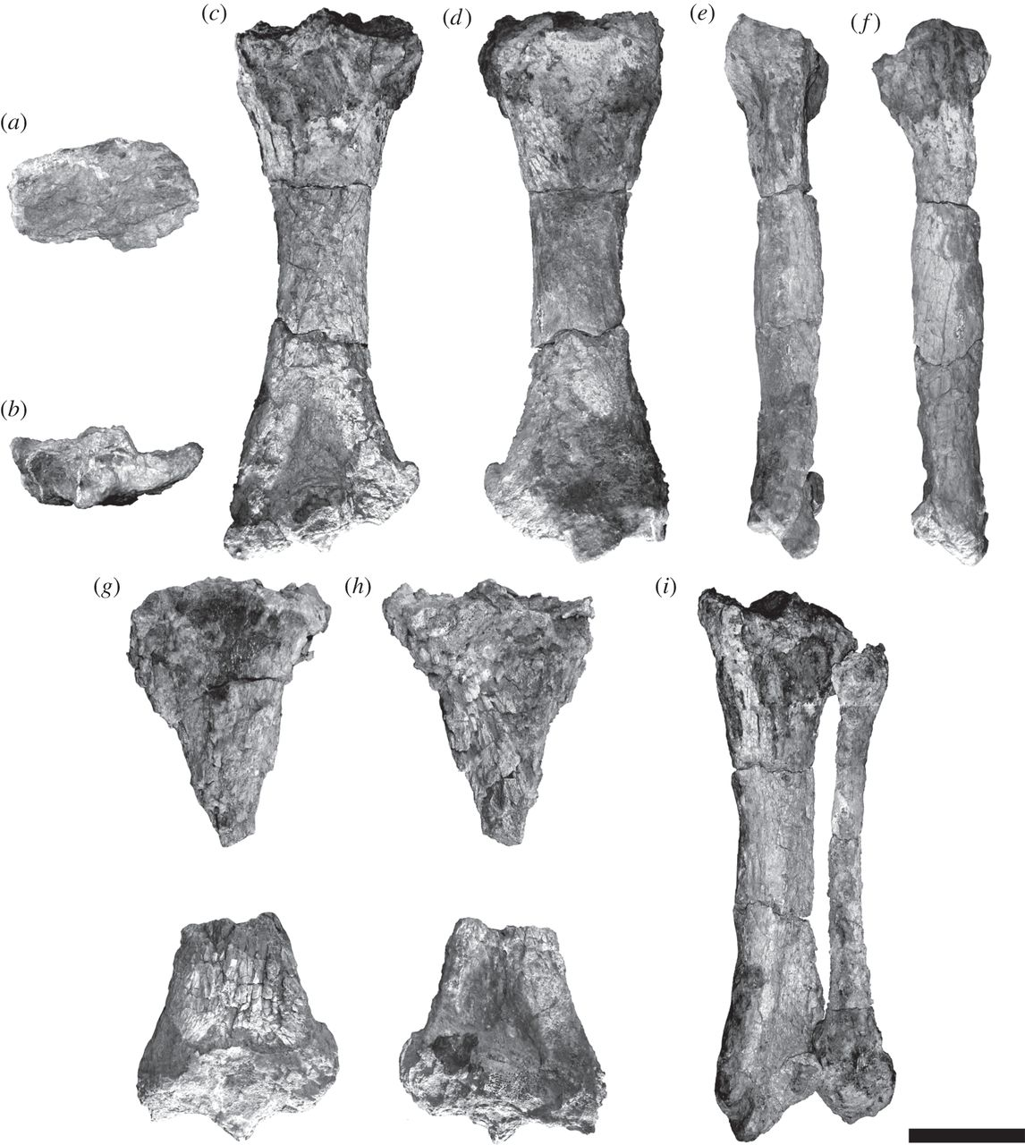 Holotype of Eionaletherium (IVIC-P-2870), right and left associated Tibia, left Tibia only partial preserved